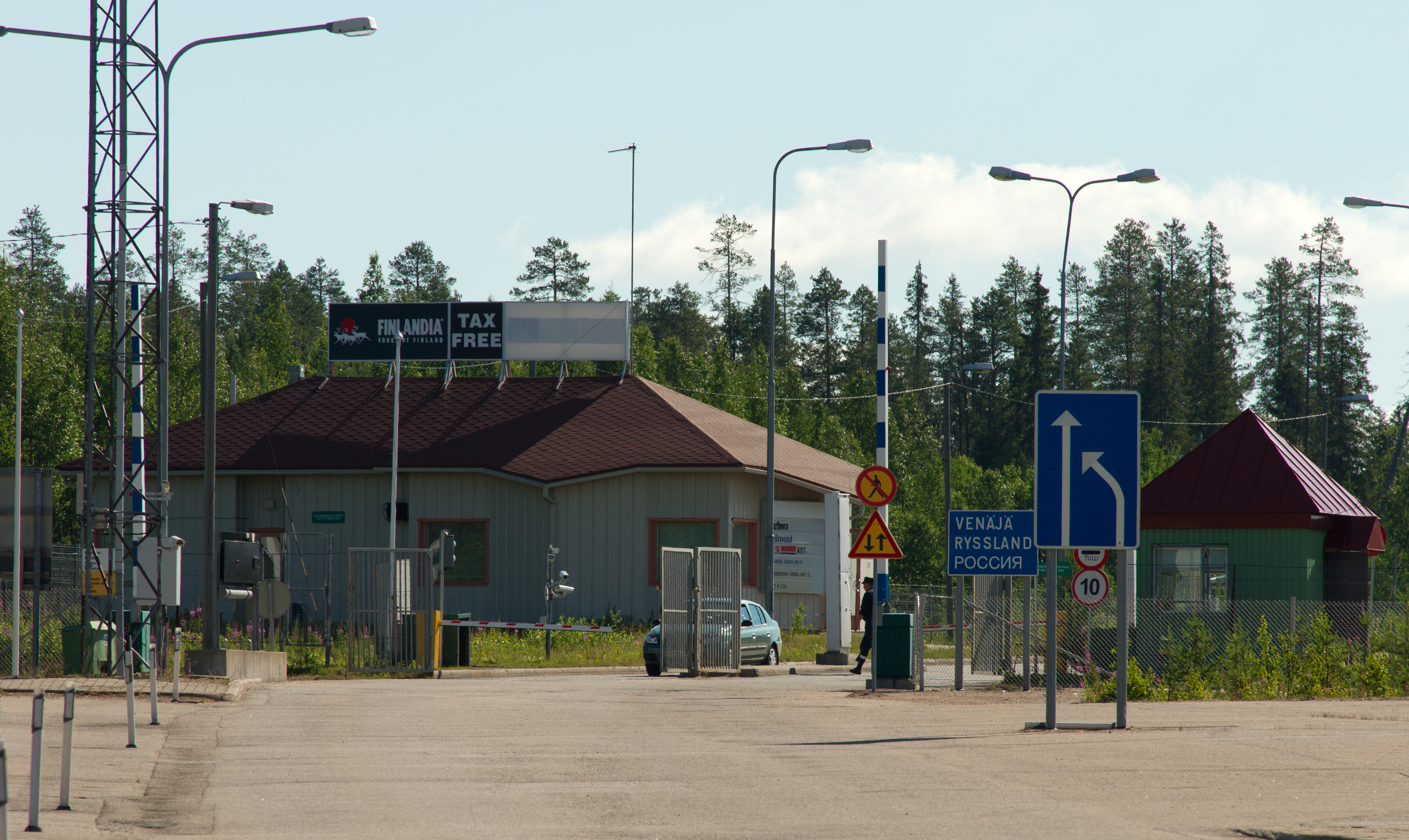 Border checkpoint with Russia in Vartius, Kuhmo, Finland